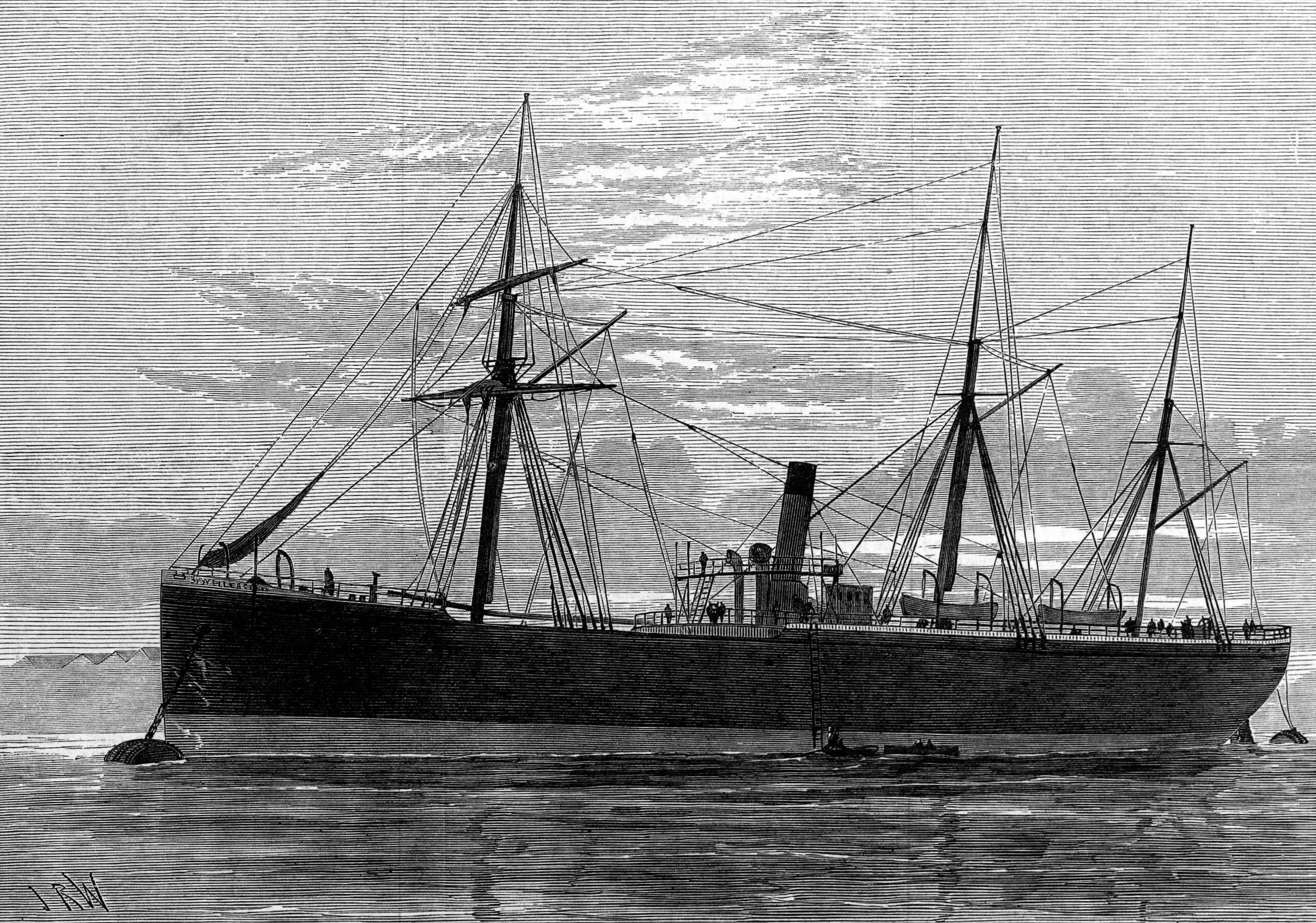 "The Bywell Castle, Screw-Steam Collier" following the sinking of the SS Princess Alice